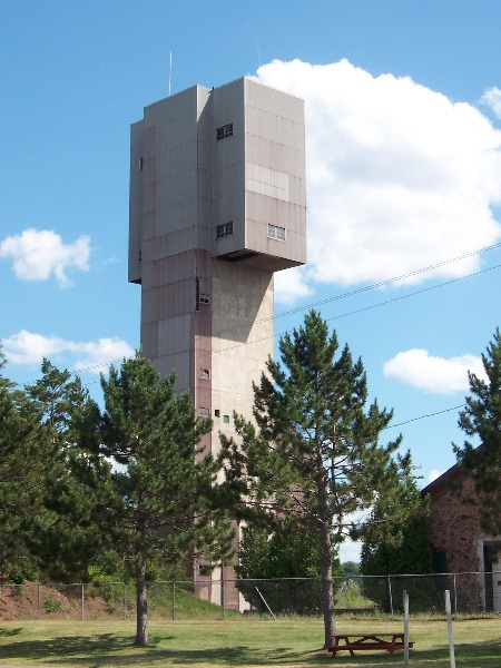 The elevator tower at the Cliffs Shaft Mine in Ishpeming, Michigan, United States. The mine is listed on the US National Register of Historic Places (NRHP).